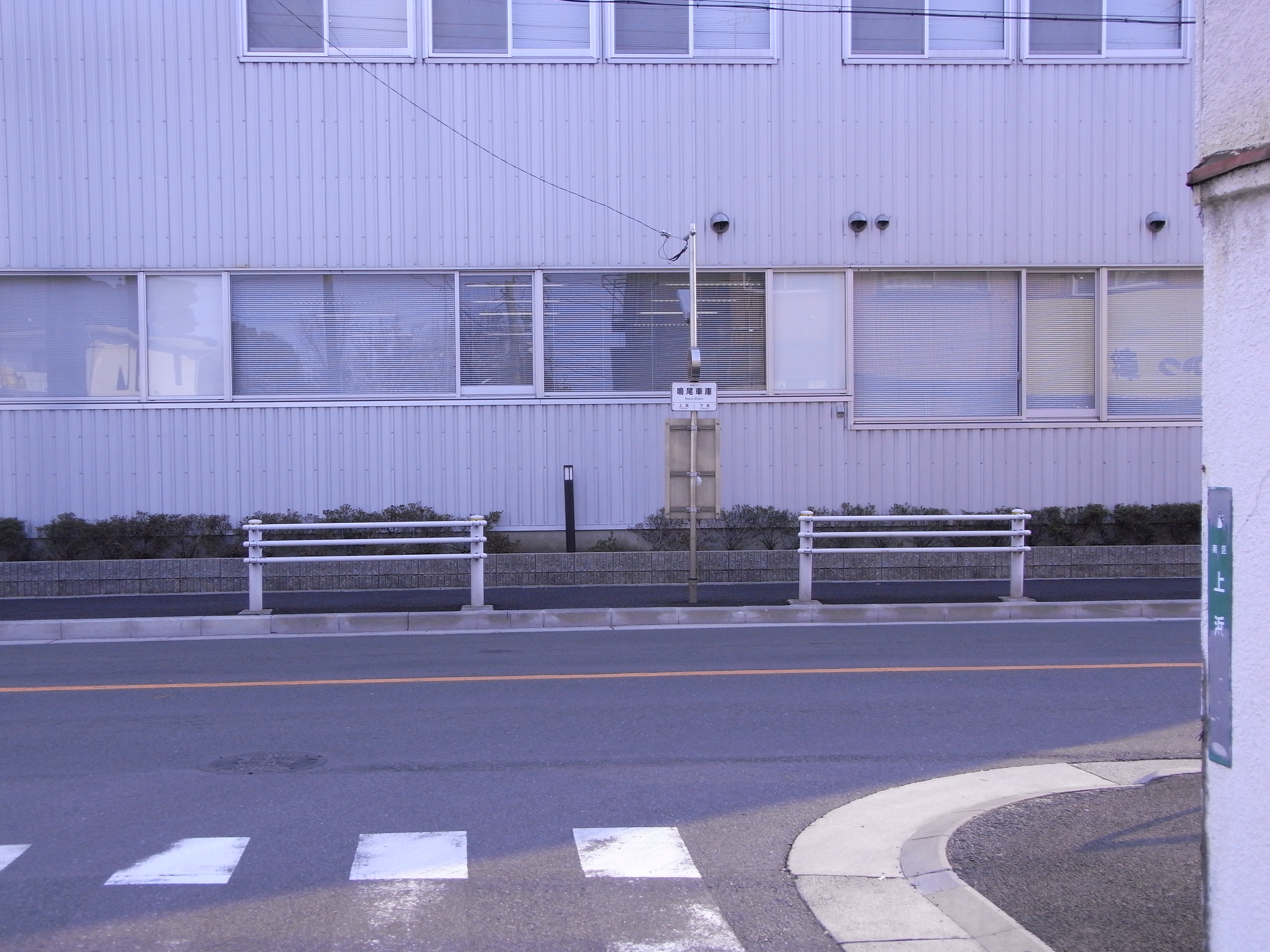 Nagoya City Bus Naruo-shako (Naruo Depot) Bus Stop